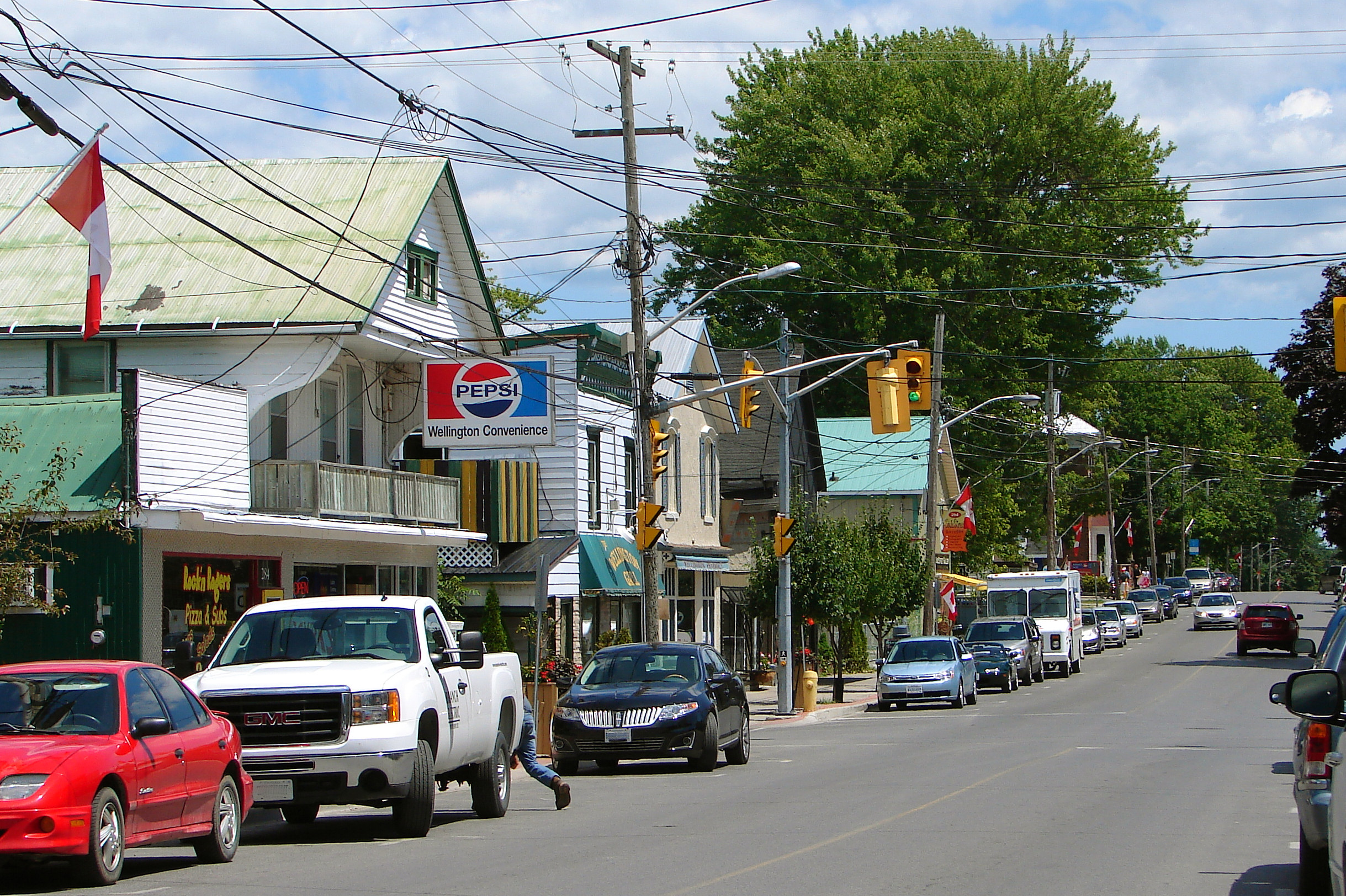 Wellington (City of Prince Edward County), Ontario, Canada